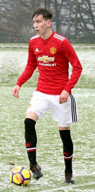 English footballer James Garner playing for Manchester United U18 in a U18 Premier League match against Liverpool at The Cliff, Salford, England on 9 December 2017